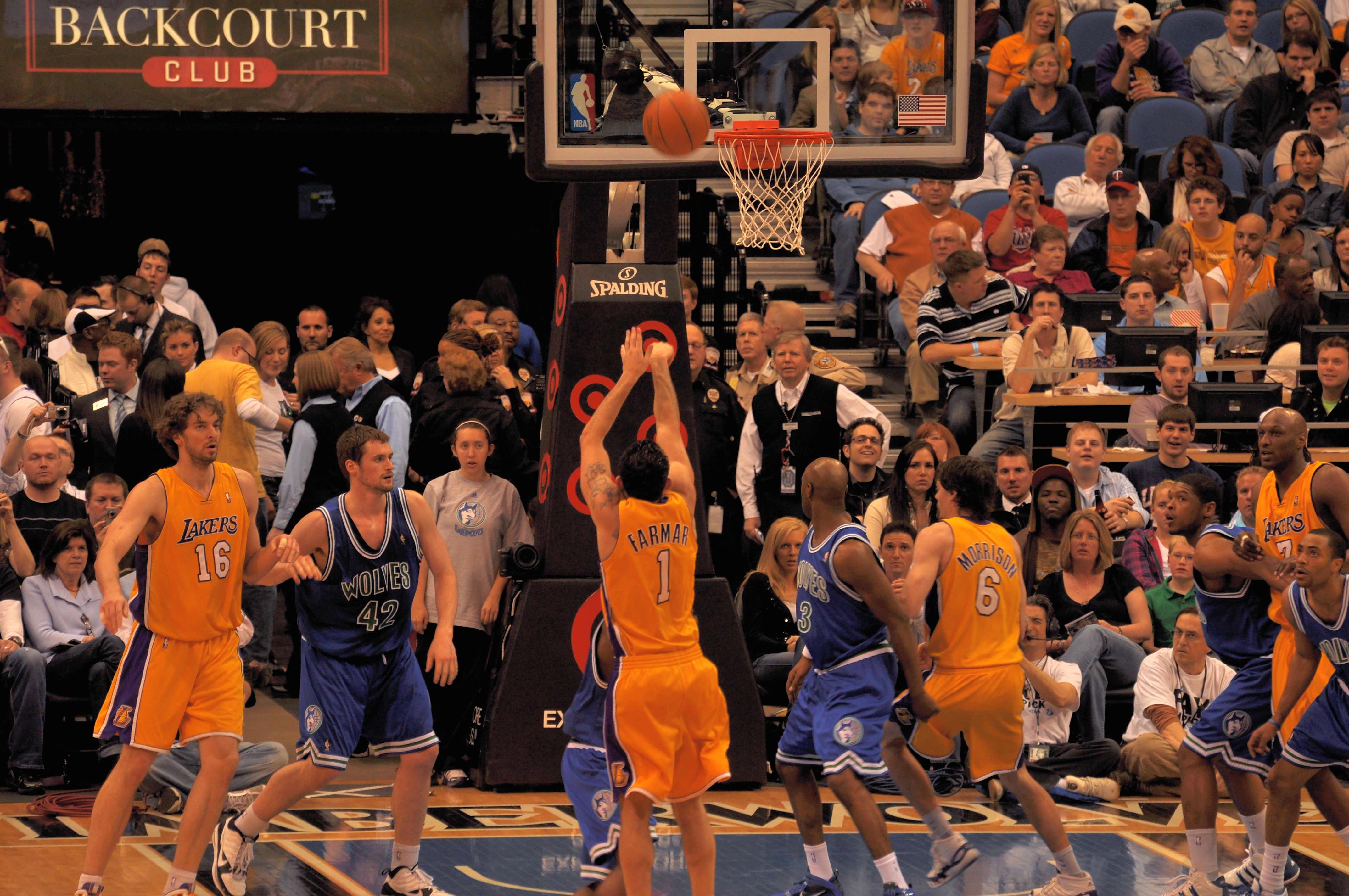 Jordan Farmar shooting.